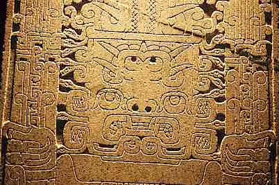 Great wall at Chavín de Huantar. Image from Comisión_de_Promoción_del_Perú.